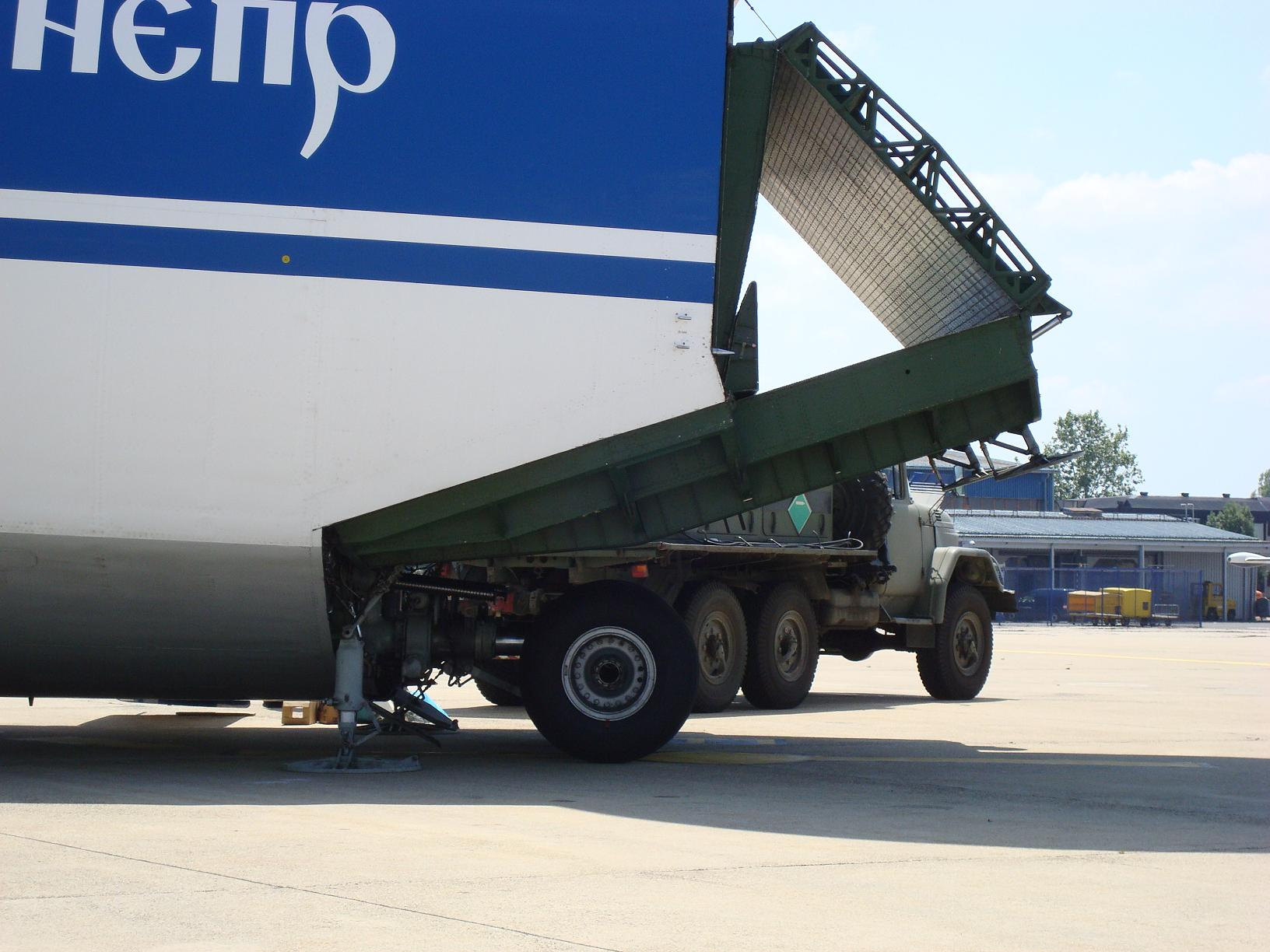 Antonov AN-124 forward loading ramp